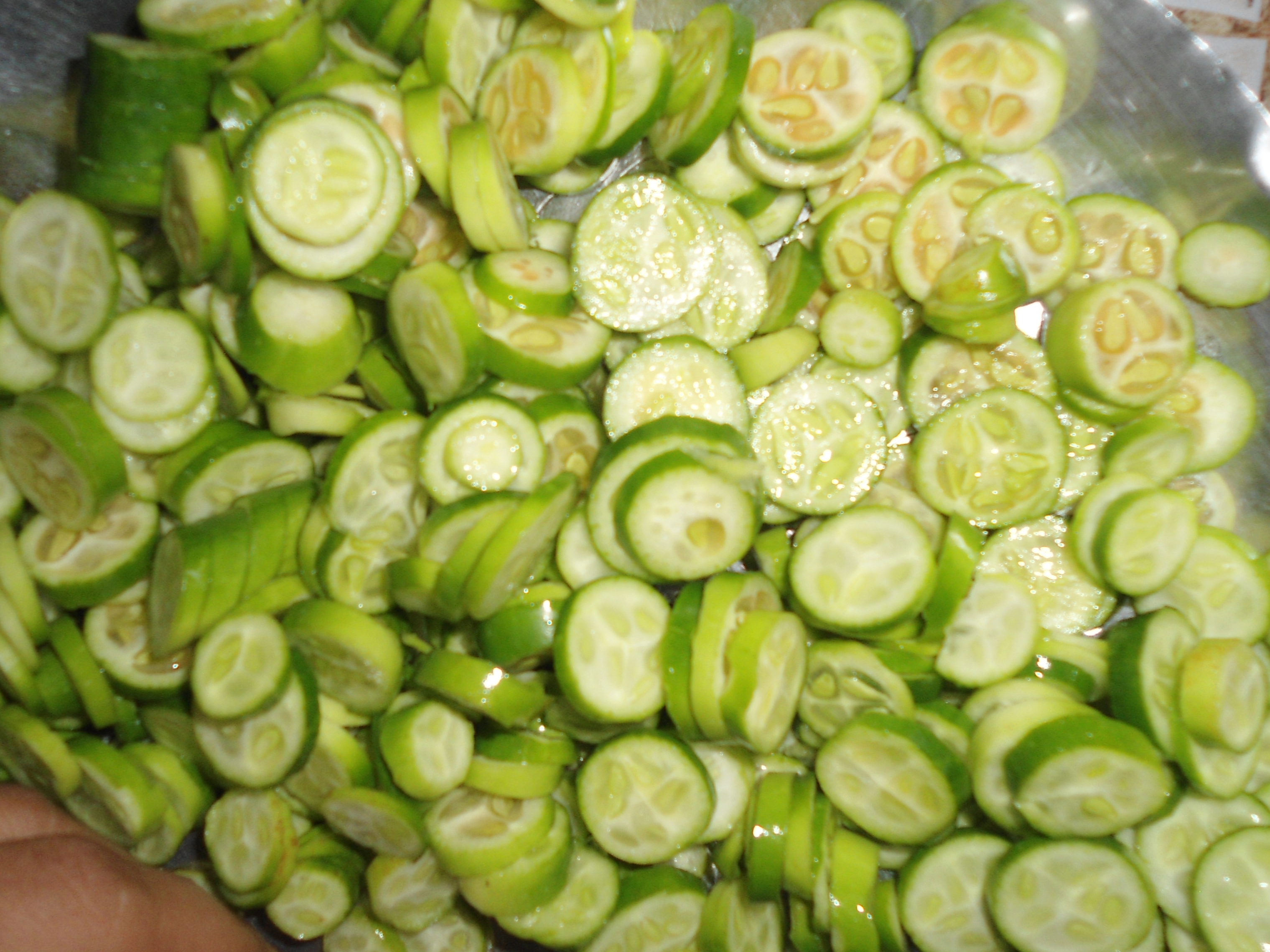 (Coccinia grandis) chopped for cooking at Madhurawada, Visakhapatnam